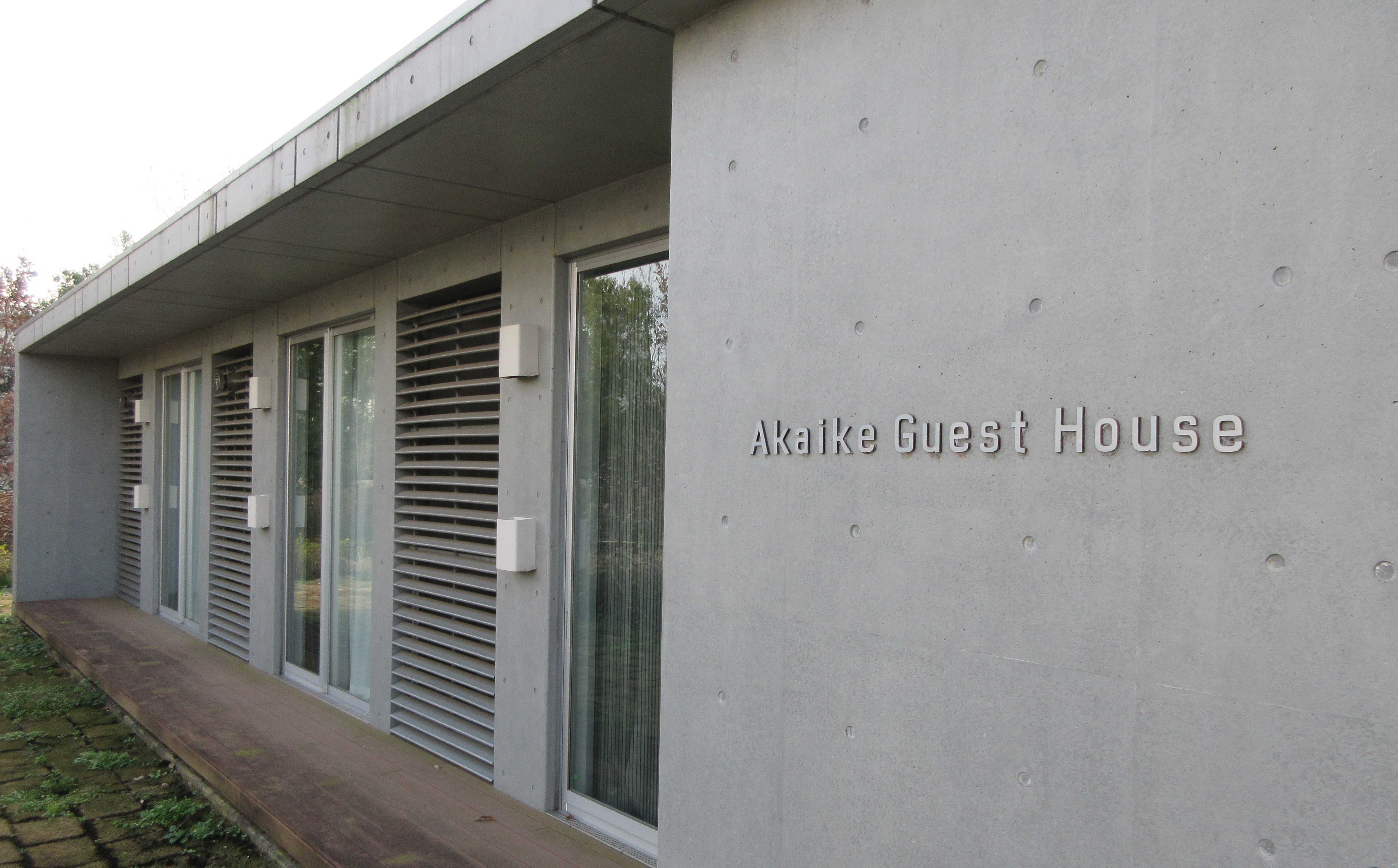 Akaike Guest House, named after a Japanese statistician Professor Hirotugu Akaike, of Research Organization of Information and Systems in Tachikawa, Tokyo.